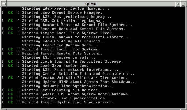 Systemd booting in Debian Unstable from November 2015.